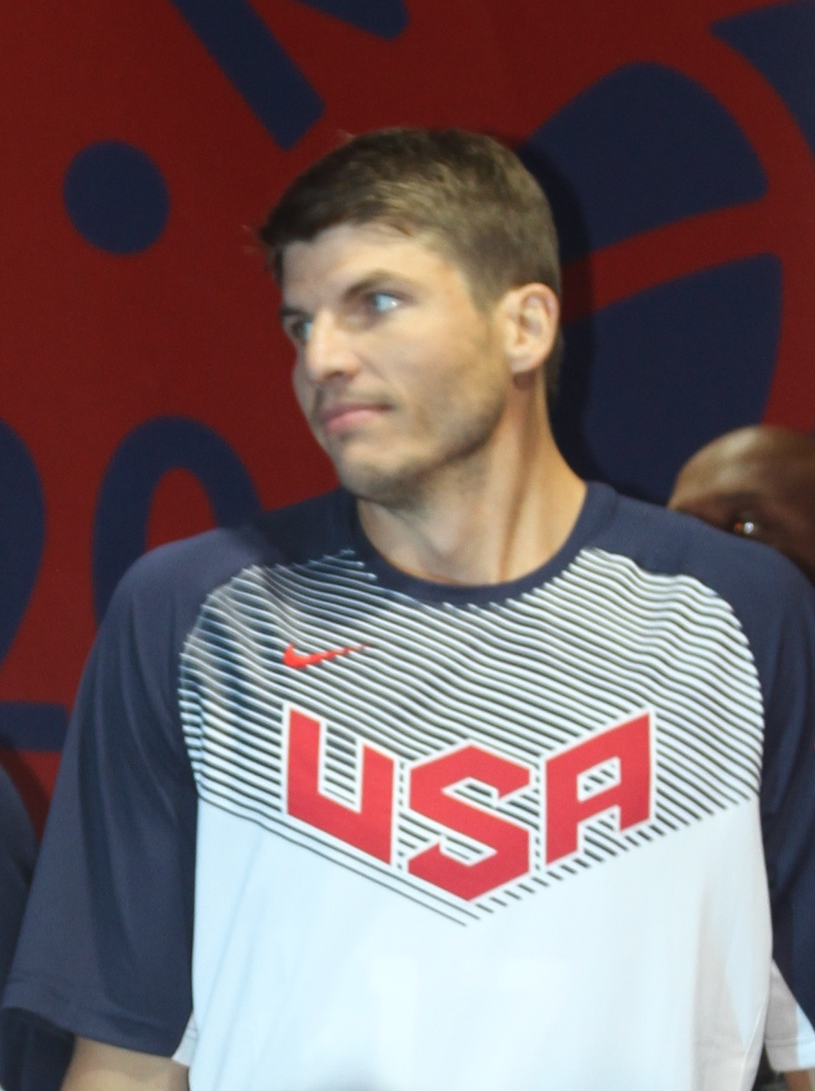 Kyle Korver at the 2014 World Basketball Festival at 63rd Street Beach in Chicago